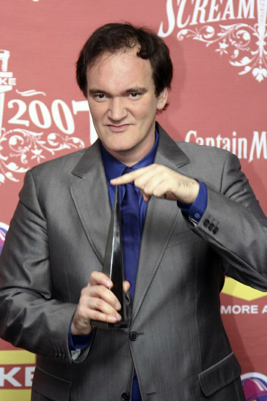 Quentin Tarantino. Taken at the 2007 Scream Awards